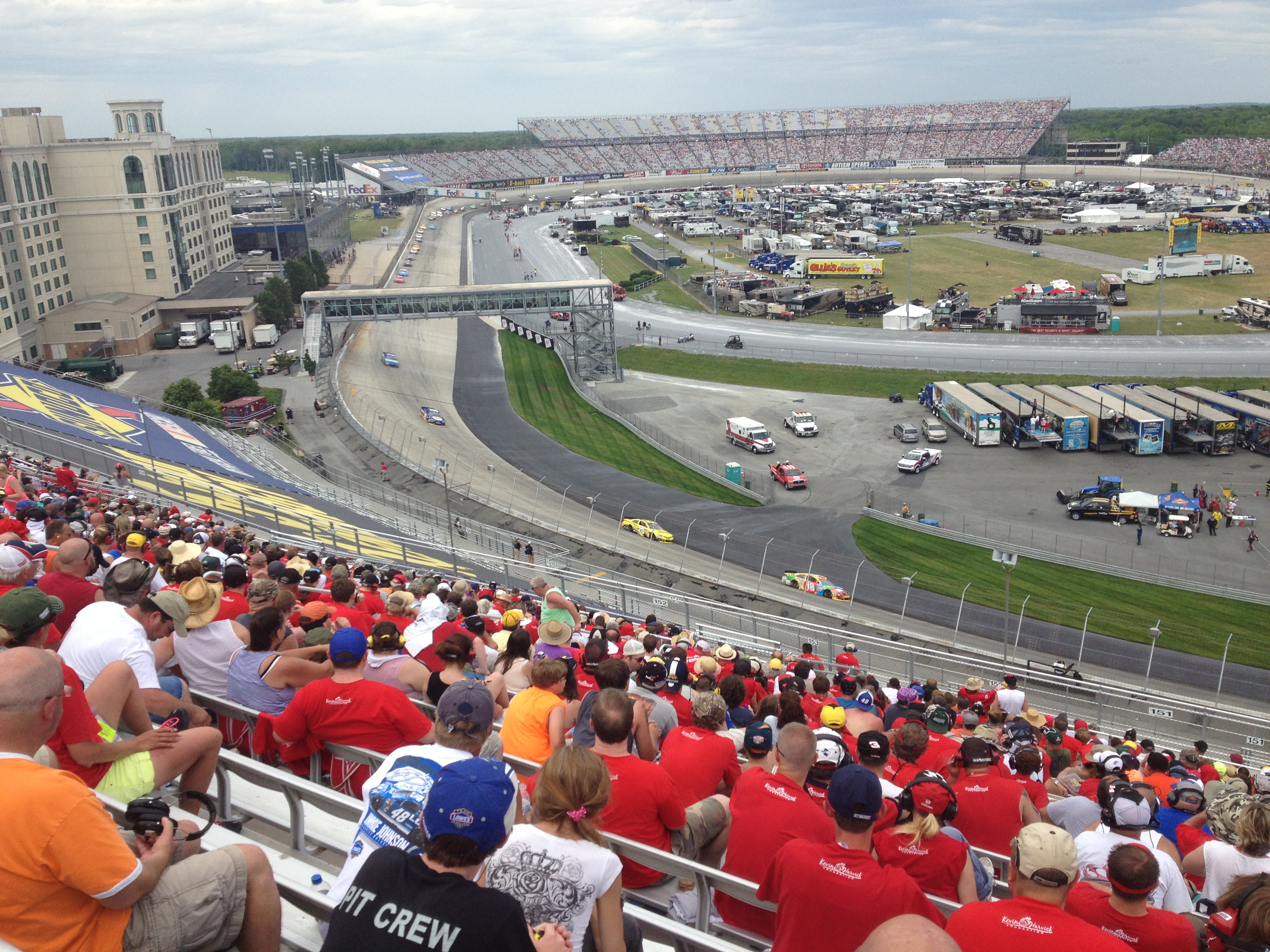 The 2013 FedEx 400 at Dover International Speedway viewed from turn 3. Kyle Busch (#18) leads Matt Kenseth (#20), Martin Truex Jr. (#56), Kasey Kahne (#5) and the rest of the field following a restart after a debris caution.